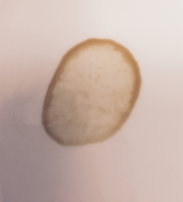 The coffee ring effect is a phenomena that involves a concentrated ring of precipitate that forms on the edge of a drying drop of liquid (not necessarily coffee). This image actually did use coffee for the effect.